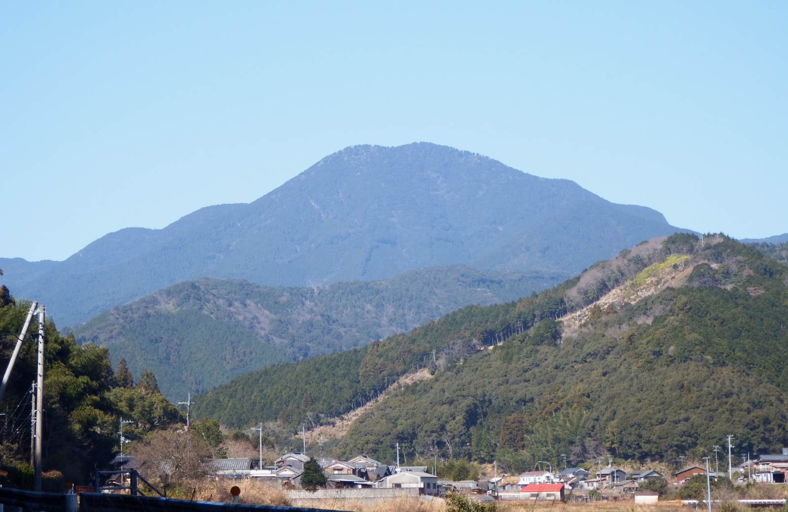 Sasayama (Mount Sasa) as seen from the SSE in the border between Ehime and Kochi Prefecture, Japan.